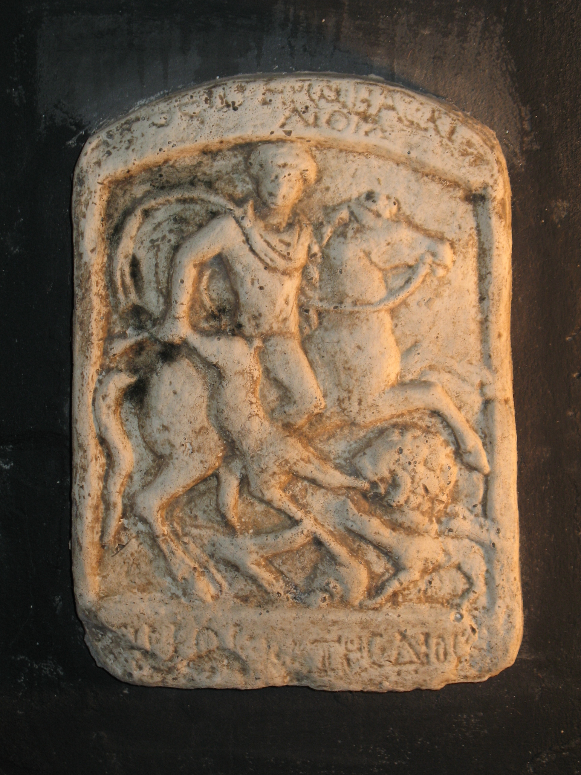 An ancient Roman relief with a hunting scene, from Rousse, Bulgaria.